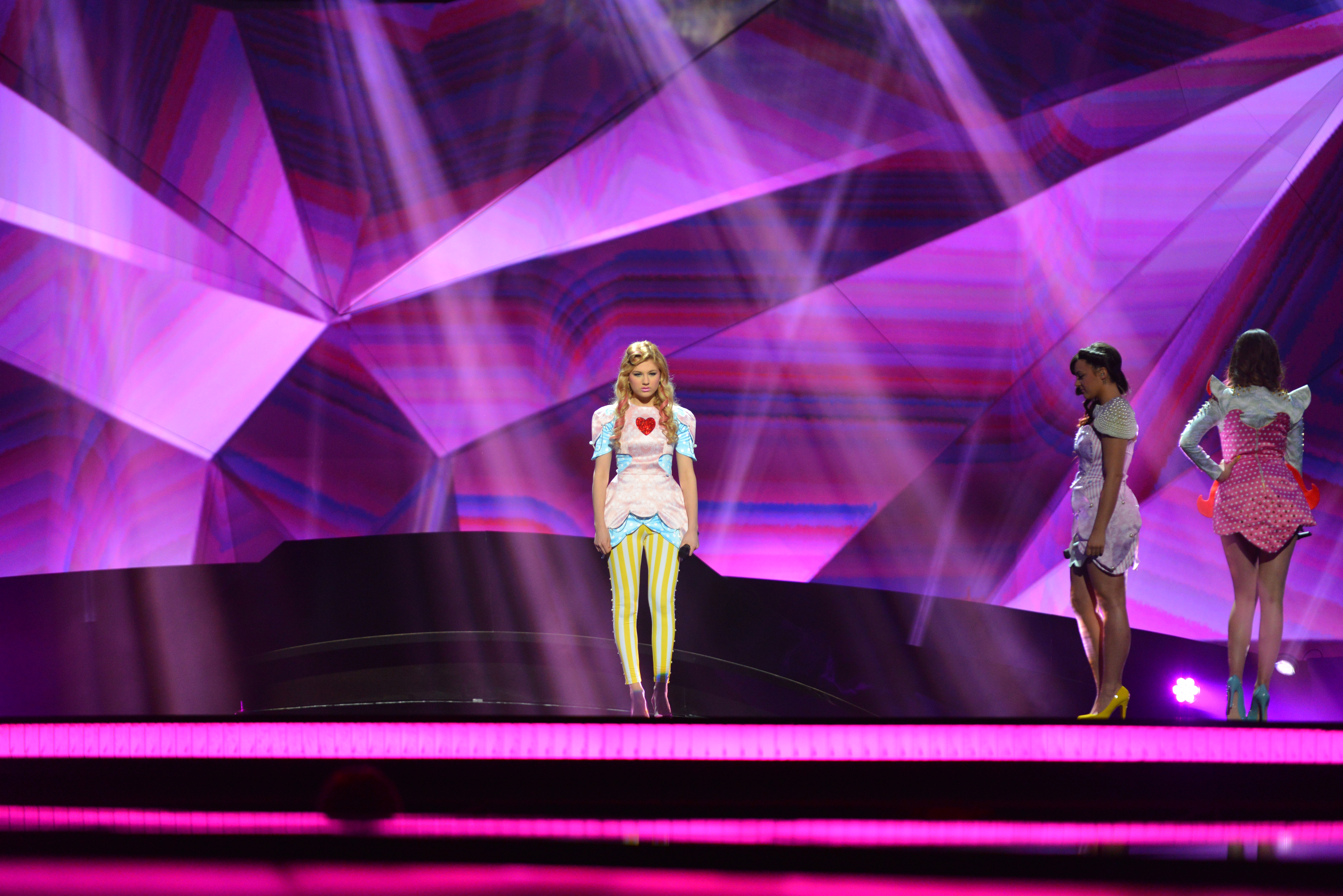 Moje 3 representing Serbia with the song "Ljubav je svuda" during the first dress rehearsal of the first semi final of the Eurovision Song Contest 2013 Malmö. (Help translate this text)